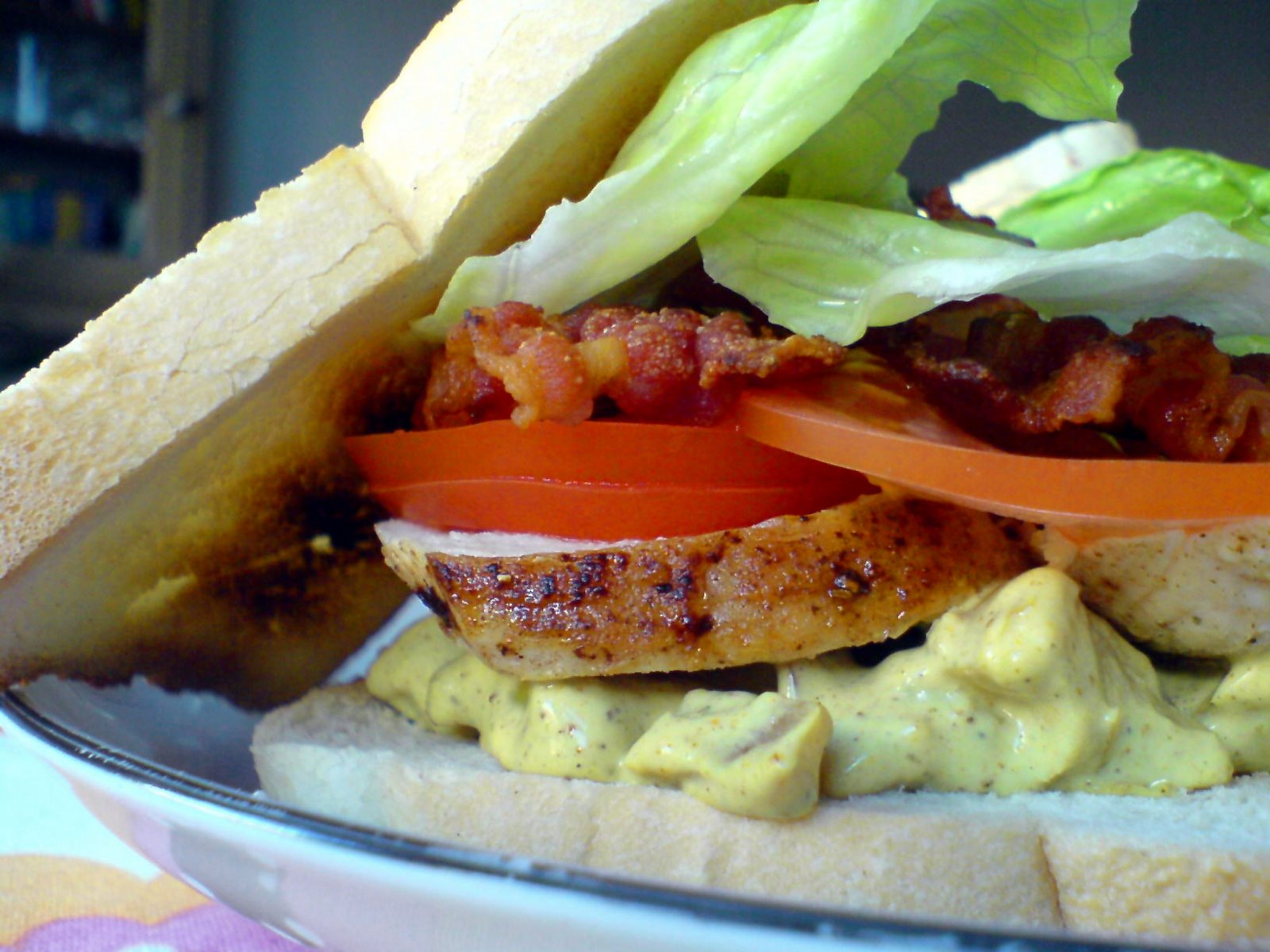 Club sandwich (Danish edition?) with curry sauce